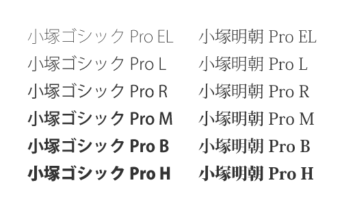 Typeface sample of Kozuka Mincho and Kozuka Gothic